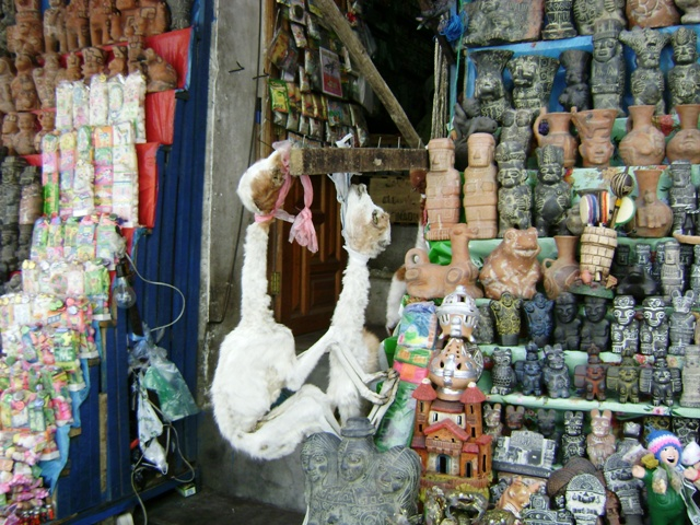 Mercado de Hechiceria, also known as "The Witches' Market", La Paz (Bolivia).